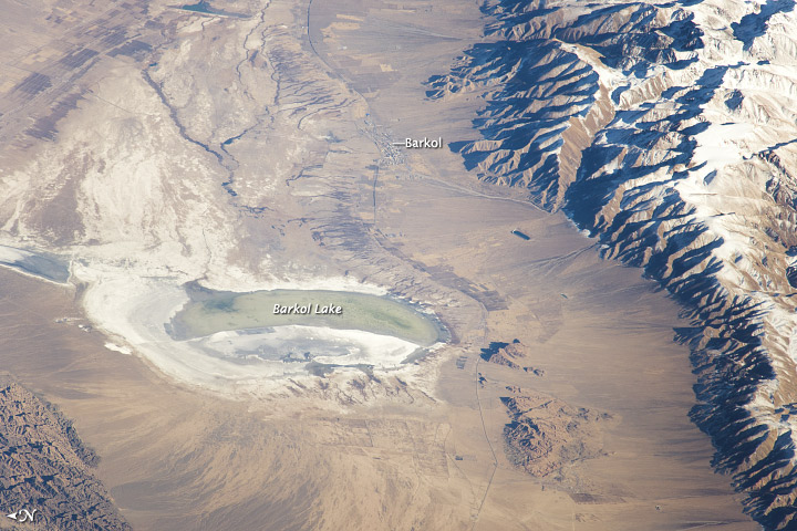 The green-brown waters of Barkol Lake sit within the pale shorelines of an ancient lake, hinting that the climate was once much wetter in this part of western China. Today the region is arid and brown. Barkol Lake’s annual mean precipitation is 210 millimeters (8 inches), while the annual evaporation rate is 2,250 millimeters (89 inches). The desert lake receives most of its water from runoff, and the water that remains after evaporation is very salty and full of minerals. Square ponds on the edge of the lake are probably evaporation ponds used to extract those minerals from the water. Astronauts on the International Space Station snapped this photo on the lake on November 6, 2013. The astronauts were looking over the lake from the west, so east is toward the top of the photograph. The basin is closed, which means that the small streams in the photo run into the lake, but nothing runs out. Evaporation is the only means through which water leaves Lake Barkol. The ancient shorelines show up as concentric rings, indicating that water levels have varied many times. One study identified five climates at Barkol Lake over the past 8,000 years, ranging from warm and wet to cold and wet and finally cold and dry. The average annual temperature in the area is now just 1° Celsius (34° F), though temperatures swing from extreme highs (33.5° C or 92.3° F) to extreme lows (-43.6° C or -46.5° F).